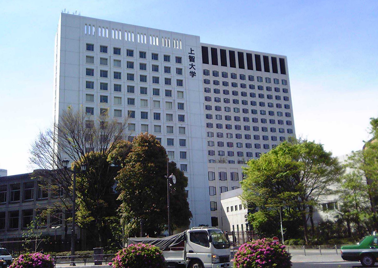 Sophia University, Tokyo, Japan